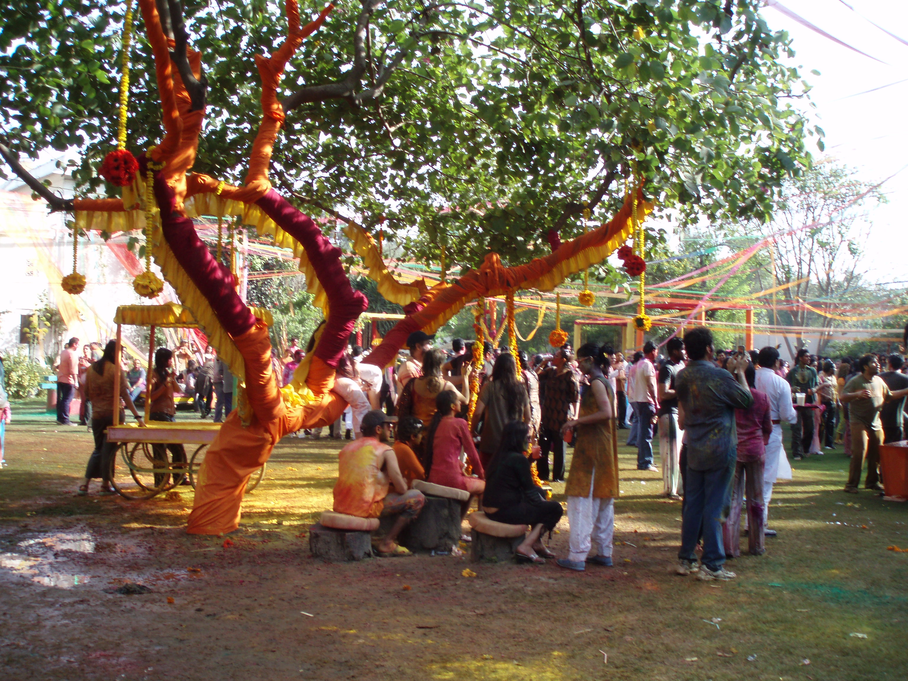 Holi party in Delhi, with crowd and a tree decorated in coloured fabrics.